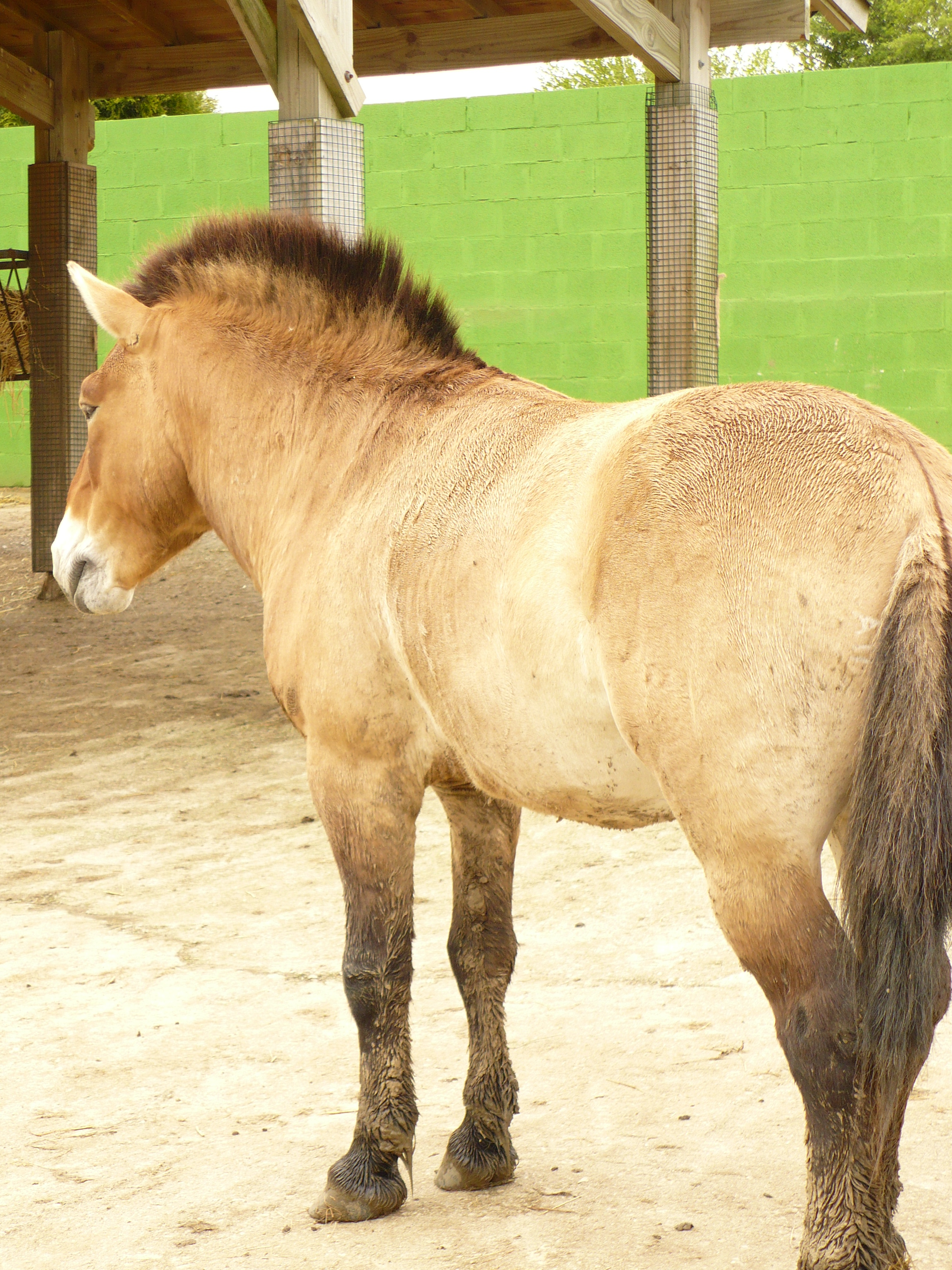 Przewalski's horse at Santillana del Mar zoo (Cantabria)